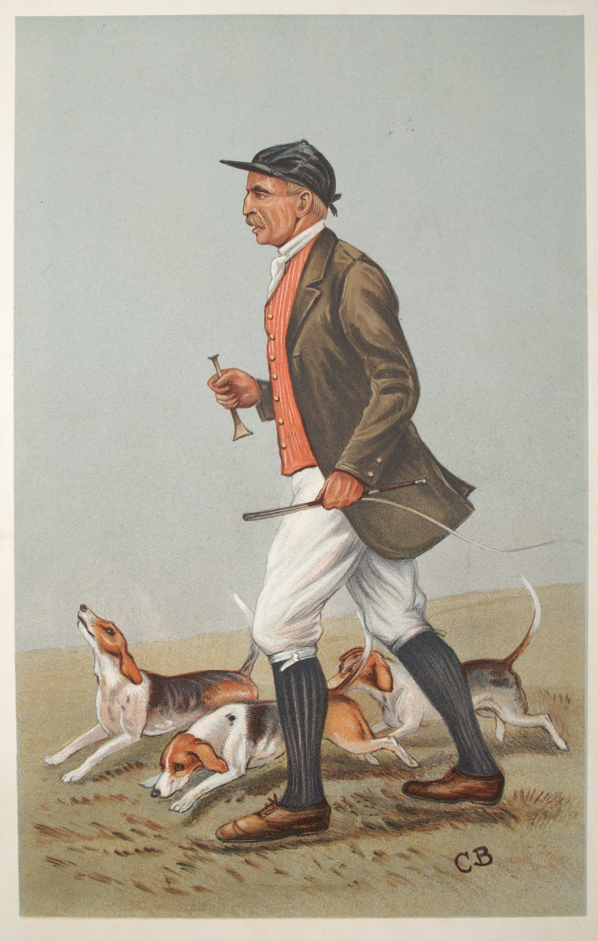 Caricature of John Otho Paget.